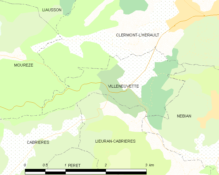 Map commune FR insee code 34338.png - Villeneuvette